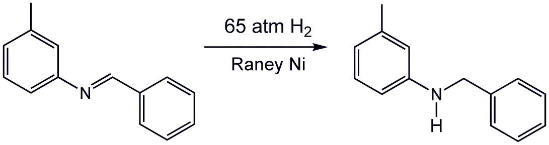 hydrogenation of tolylimine